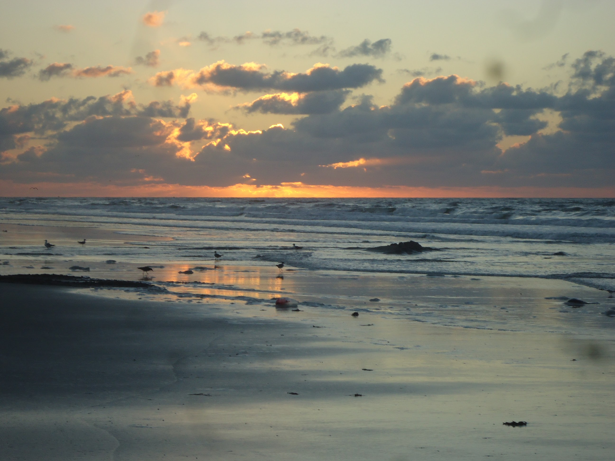 Clouds and ocean and sand and sun, early morning, maybe around 6am, August.